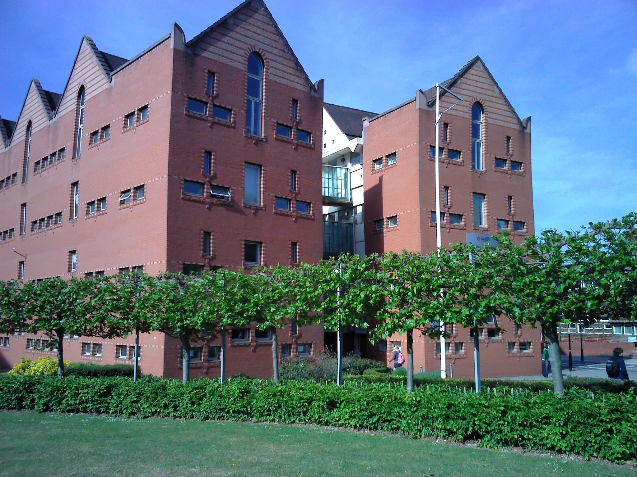 Queens Building of De Montfort University.